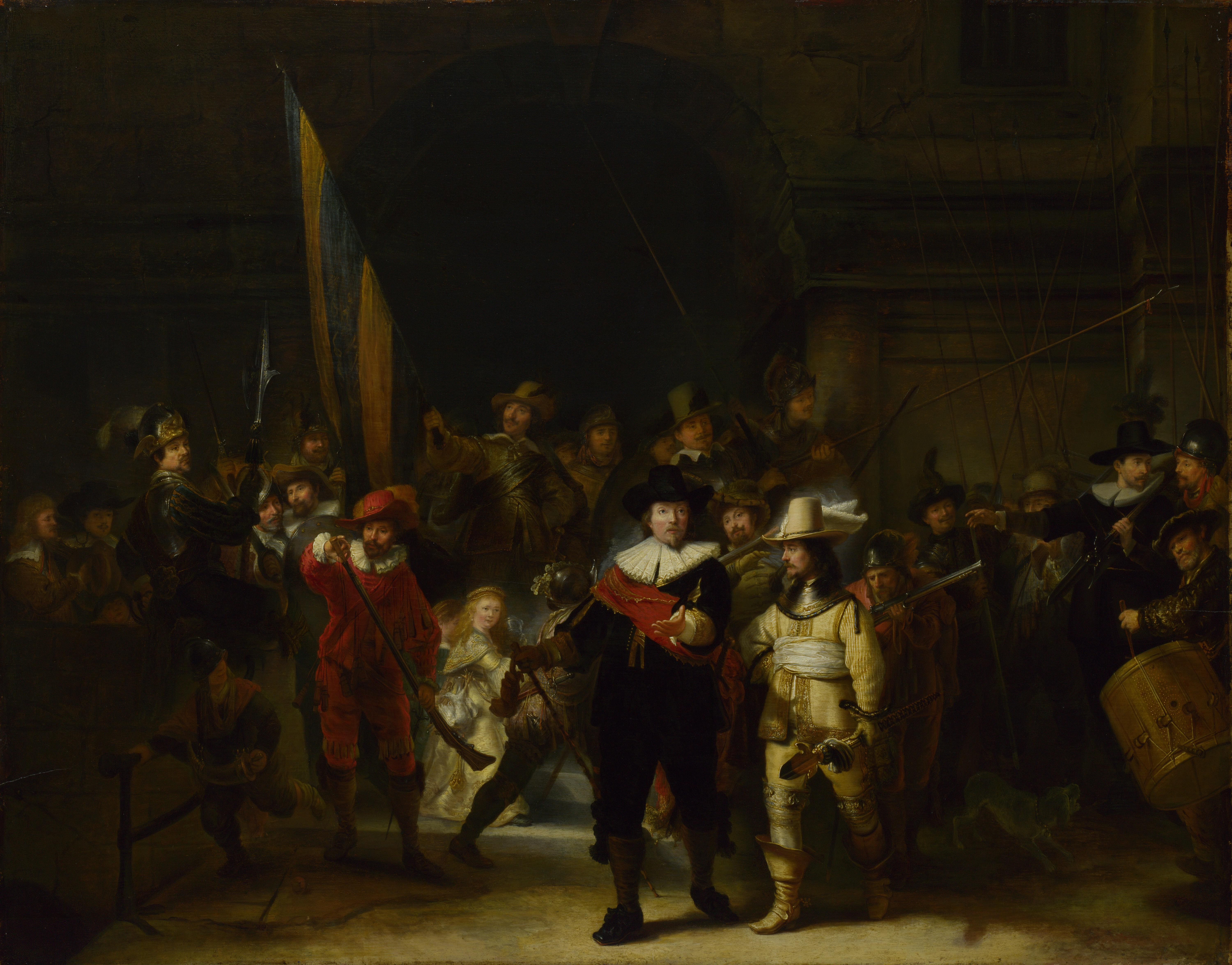 Copy of The Night Watch by Rembrandt. This copy is particularly important because it shows sections of the original painting that were cut away and lost in the 18th century.